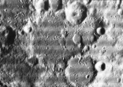 Sasserides lunar crater - Lunar Orbiter IV image LO iv 119 h2